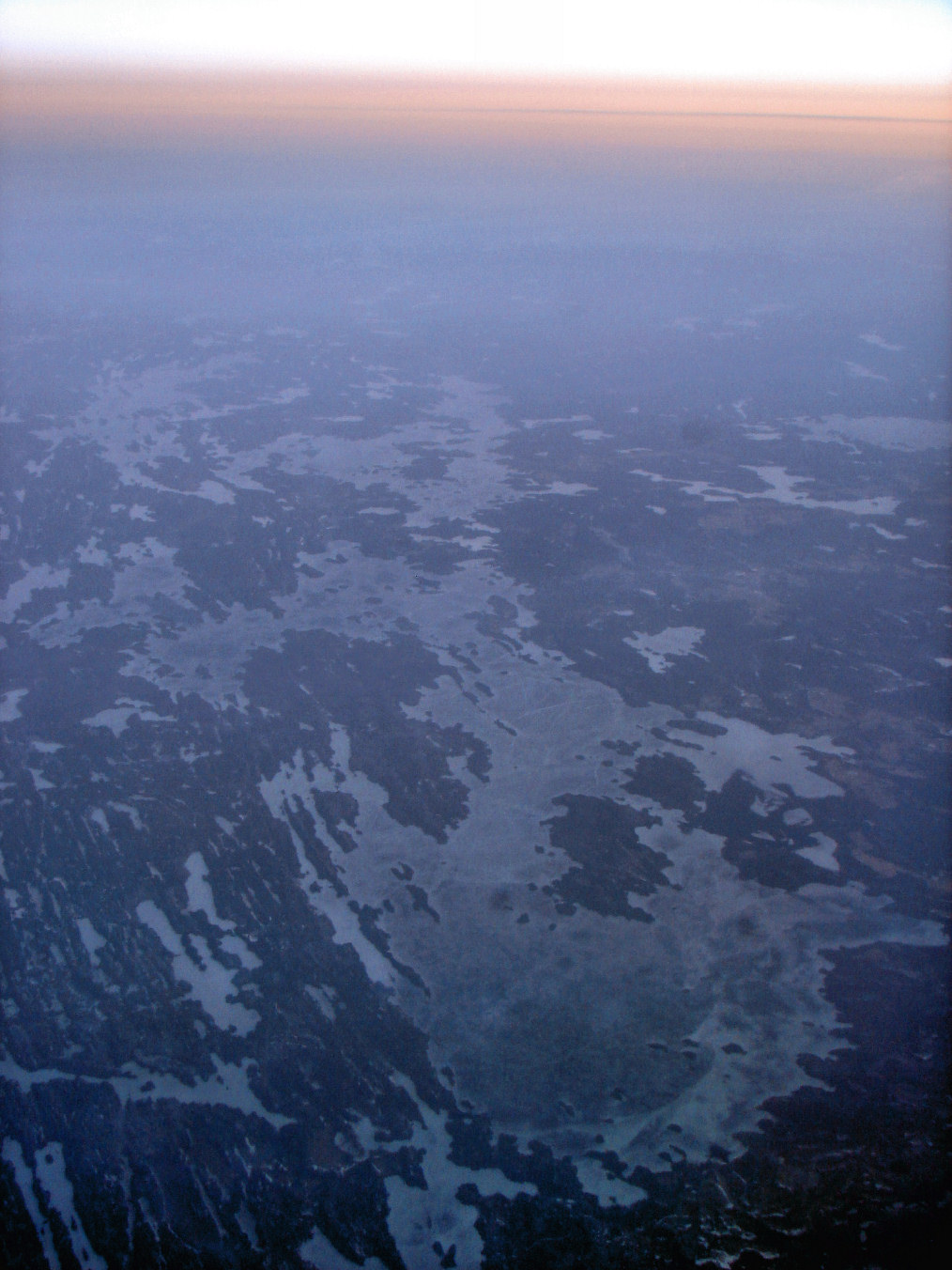 Aerial sunrise view of Lake Muskoka, Ontario, Canada